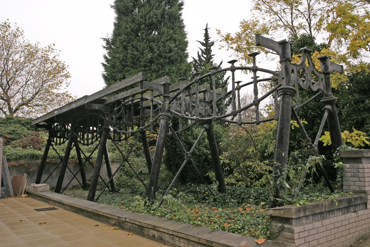 Cast iron bridge reputed to be the first iron railway bridge, used to span the River Gaunless at West Auckland, designed by George Stephenson, built by John & Isaac Burrell, Newcastle upon Tyne between 1823-1825. Re-erected at the National Railway Museum, York in 1975